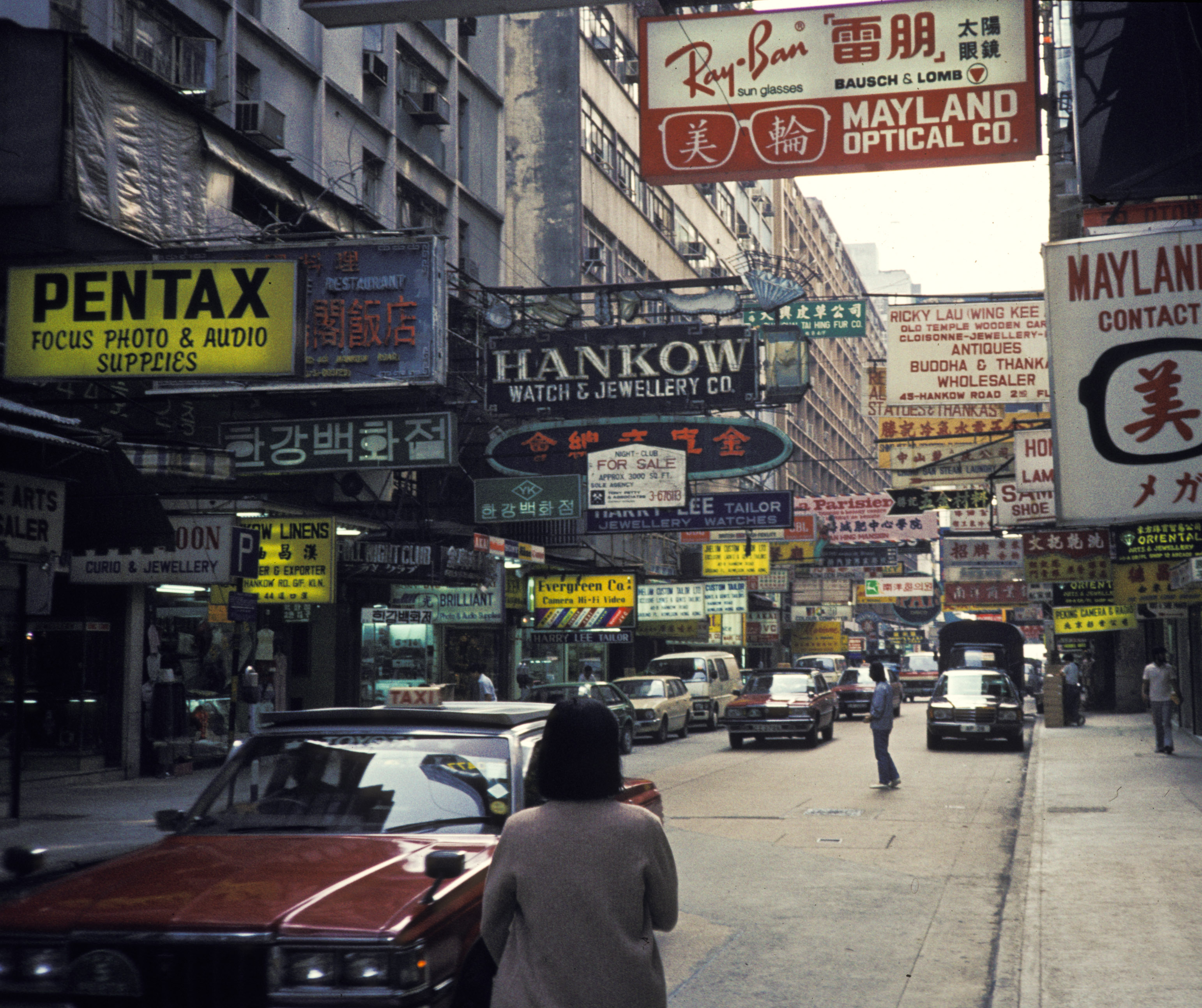 Hankow Road, Tsim Sha Tsui, Kowloon, Hong Kong. The photographer is looking south from the junction of Hankow and Haiphong Road.中文（香港）: 香港尖沙咀漢口道